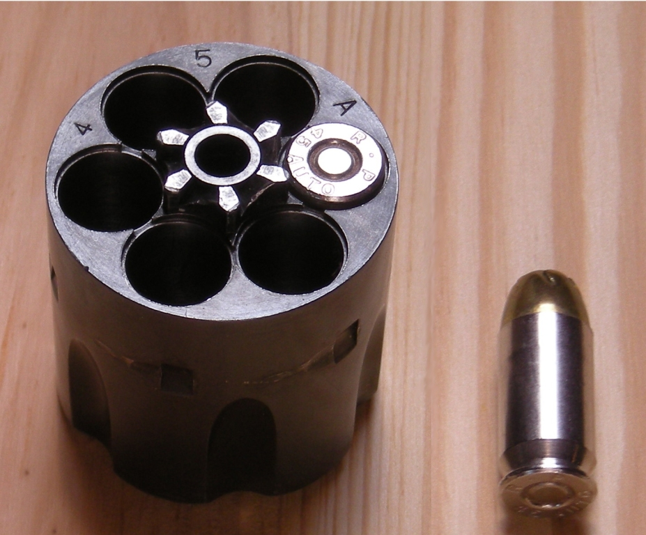 SAA ACP Cylinder